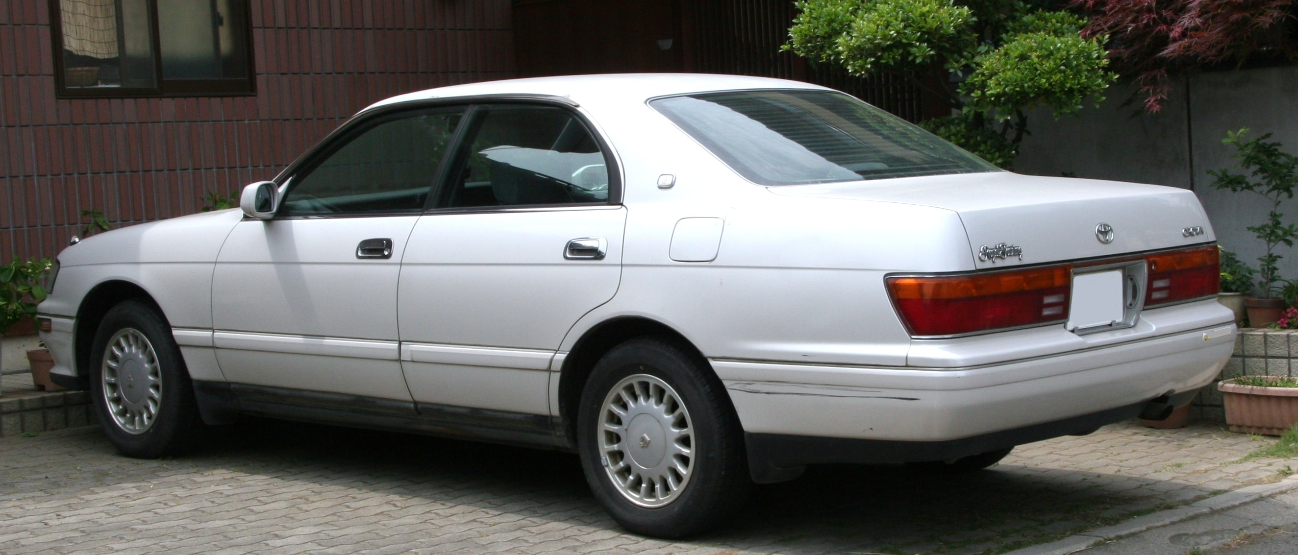 Toyota Crown